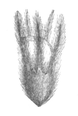 Illustration from book